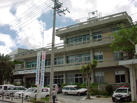 Naha City Shuri Branch Office